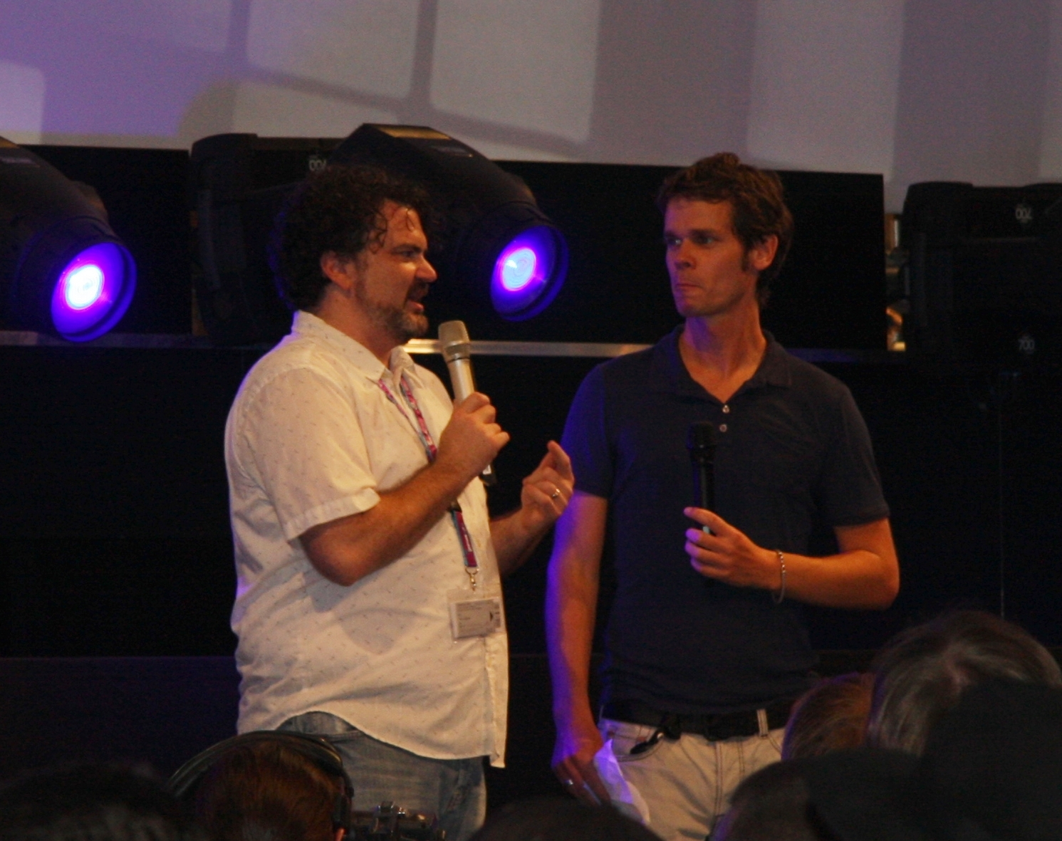 Tim Schafer presents his new game „Brütal Legend“ at the gamescom 2009